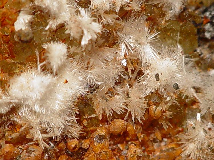 Rapidcreekite, Quartz Locality: Rapid Creek, Dawson Mining District, Yukon Territory, Canada (Locality at ) A good and somewhat showy specimen of this rare calcium sulphate carbonate , with eye-visible white crystals on contrasting matrix. Large and rich specimen, I am told! 10 x 6 x 3 cm